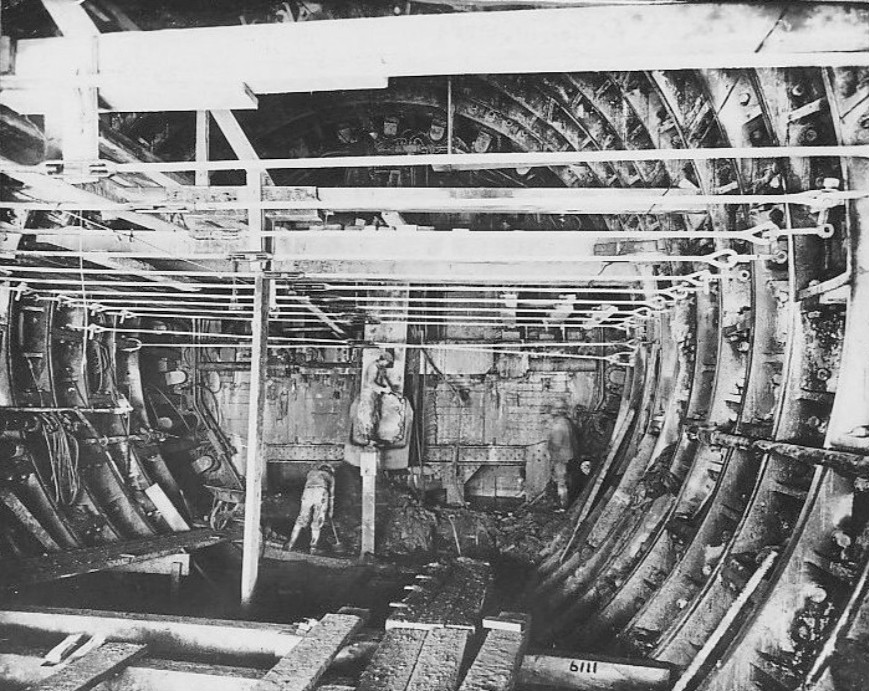 Photo of the Holland Tunnel under construction.